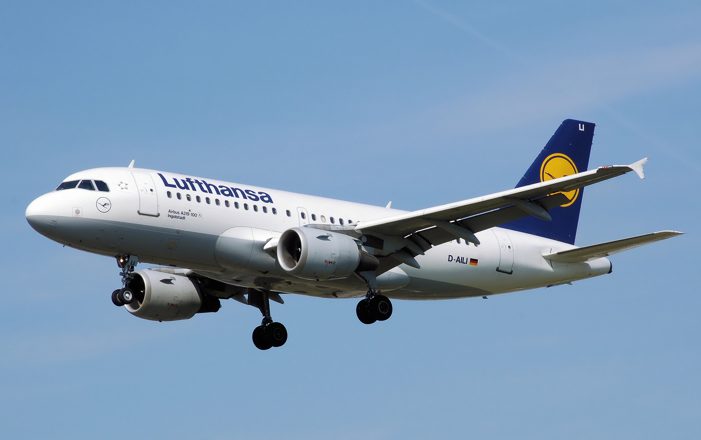 Lufthansa Airbus A319-100 (D-AILI) takes off from London Heathrow Airport.